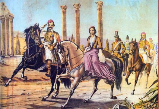 Promenade of King Otto and Queen Amalia of Greece in Athens, 1850s